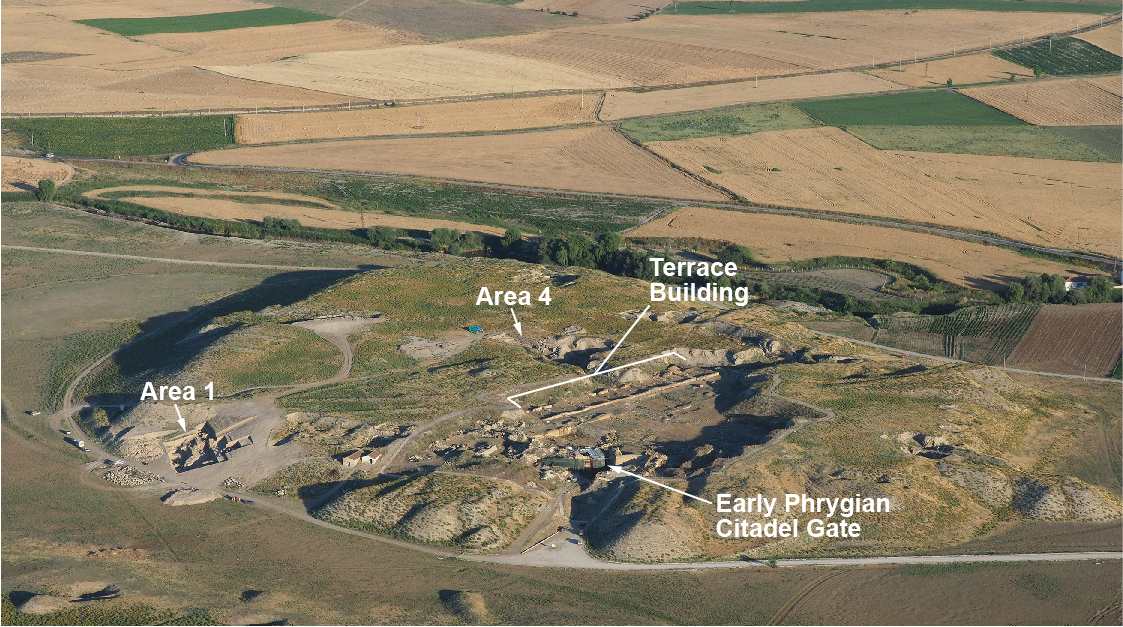 The Citadel Mound of Gordion seen from a hot air balloon